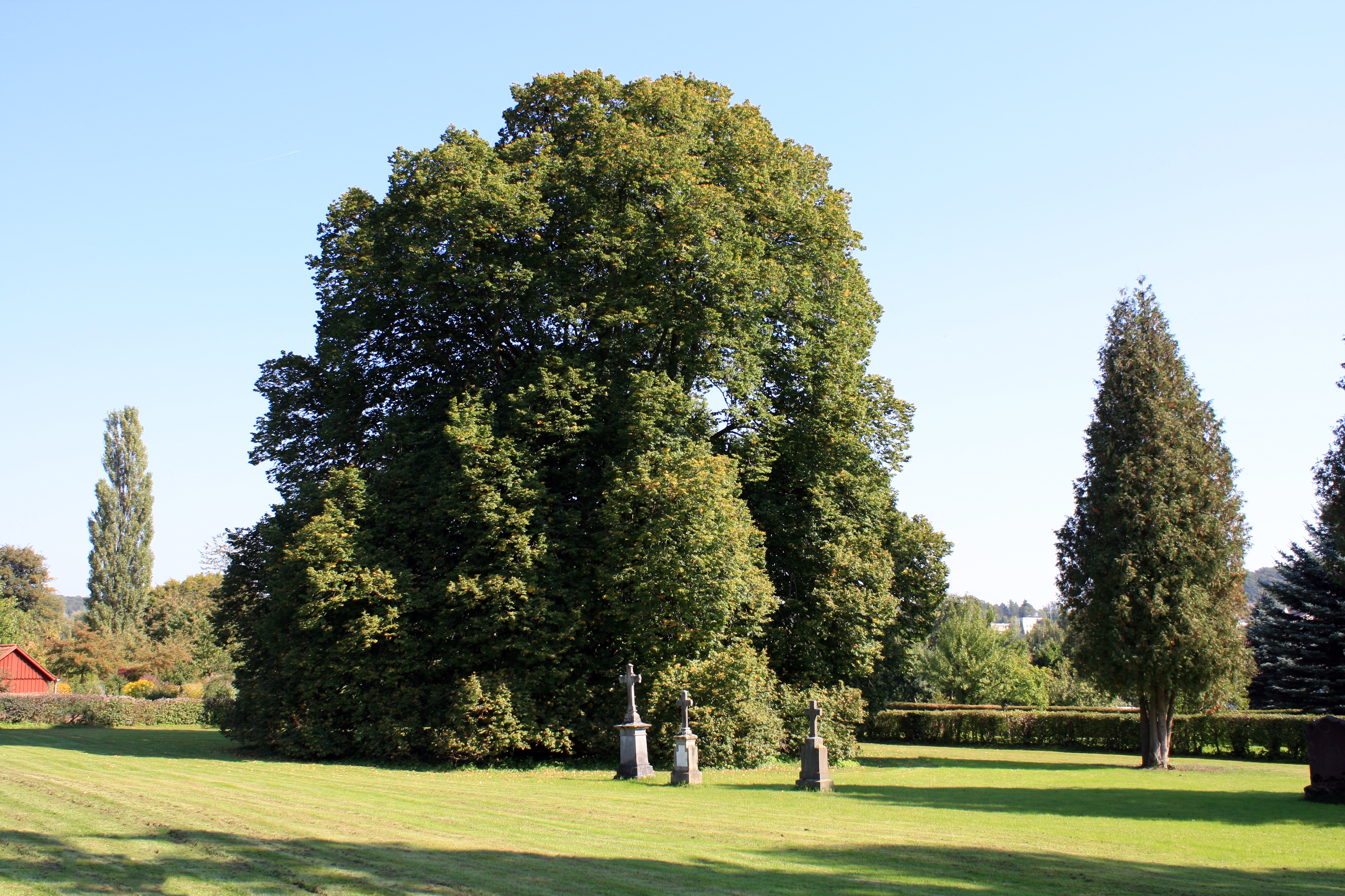 Tilia platyphyllos at Elnhausen cemetery